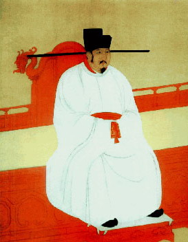 Emperor Yingzong of the Song Dynasty.